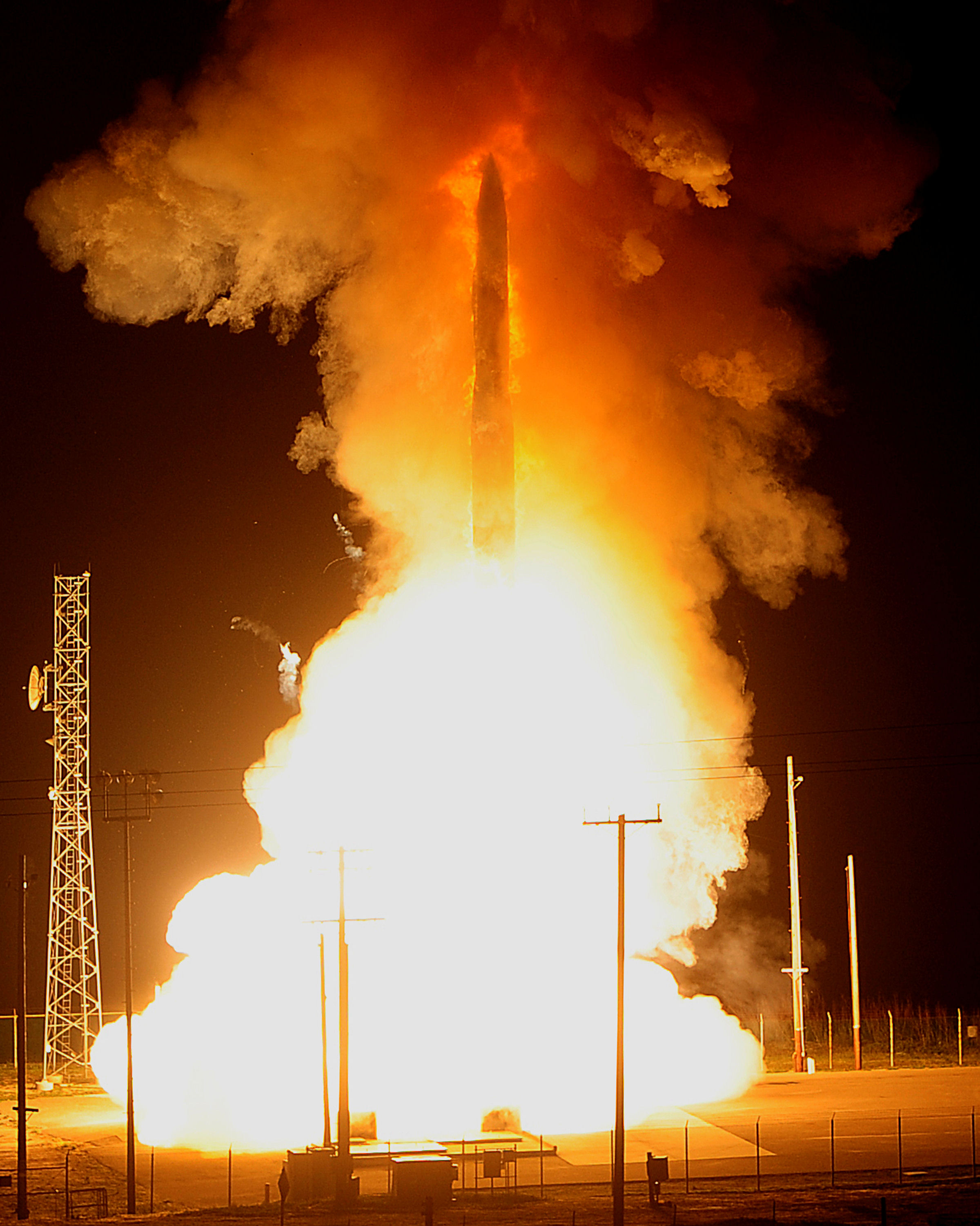 An unarmed Minuteman III ICBM shoots out of the silo during an operational test launch Feb. 25 at Vandenberg Air Force Base, Calif. (U.S. Air Force photo courtesy of 30th Space Wing Public Affairs)